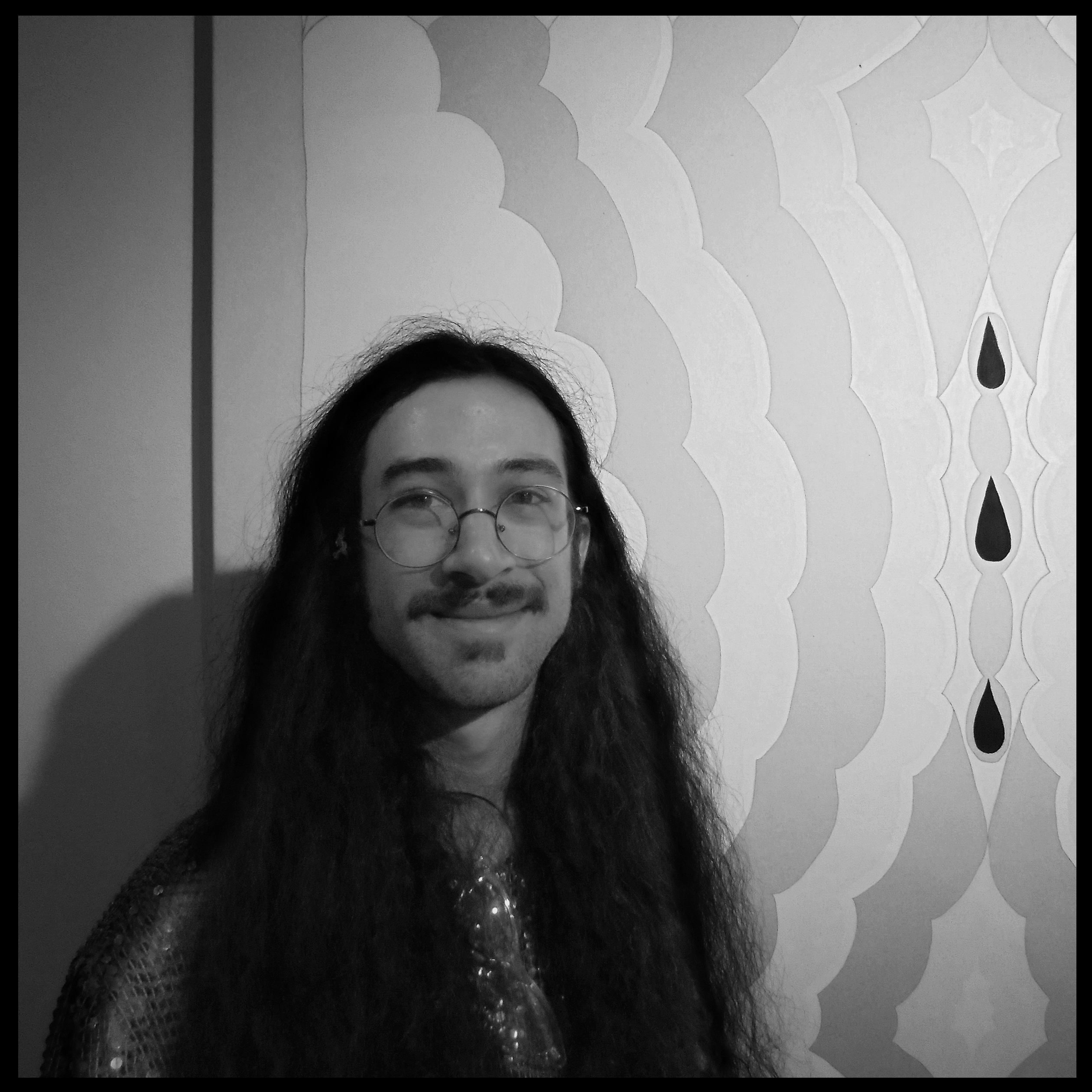 Nashville-based artist, musician and curator David Onri Anderson at his solo painting show "Apple Core Peace Temple" at Patrick Painter Gallery in Santa Monica, California March 2019. Photo by Ithaka Darin Pappas.